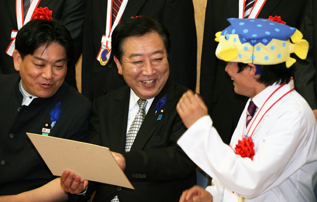 Masayuki Miyazawa, Visiting Associate Professor of the Office of Liaison and Cooperative Research, Tokyo University of Marine Science and Technology, talked with Yoshihiko Noda, Prime Minister, and Yūichirō Hata, Minister of Land, Infrastructure, Transport and Tourism, at the Prime Minister's Official Residence in Chiyoda Ward, Tōkyō Metropolis on July 13, 2012.